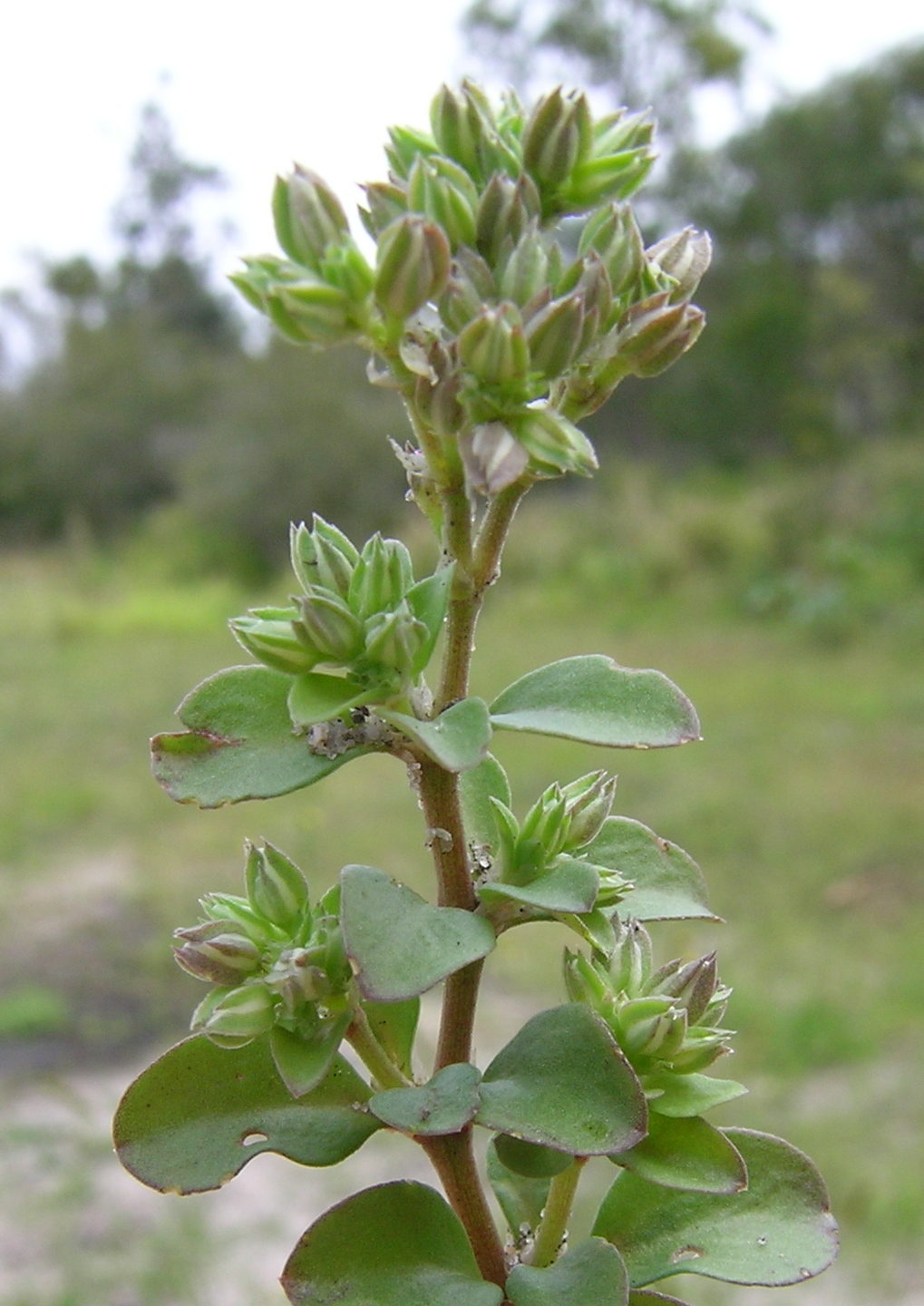 Introduced, cool-season, annual, small herb. Stems are erect or trail loosely along the ground. Leaves are 4-15 mm long, obovate to spoon-shaped and opposite arranged; sometimes appearing to be in whorls of 4. Flowerheads are small and consist of branched clusters of tiny (2-4 mm long), green and white flowers. Flowering is mostly in spring. A native of central Europe and the Mediterranean, it is a weed of pastures, lawns, gardens and wasteland. Not grazed by stock and a very minor component of pastures; it usually indicates overgrazing or disturbance when abundant. Flowerheads often form a major part of the plant, hence the name ’allseed’.